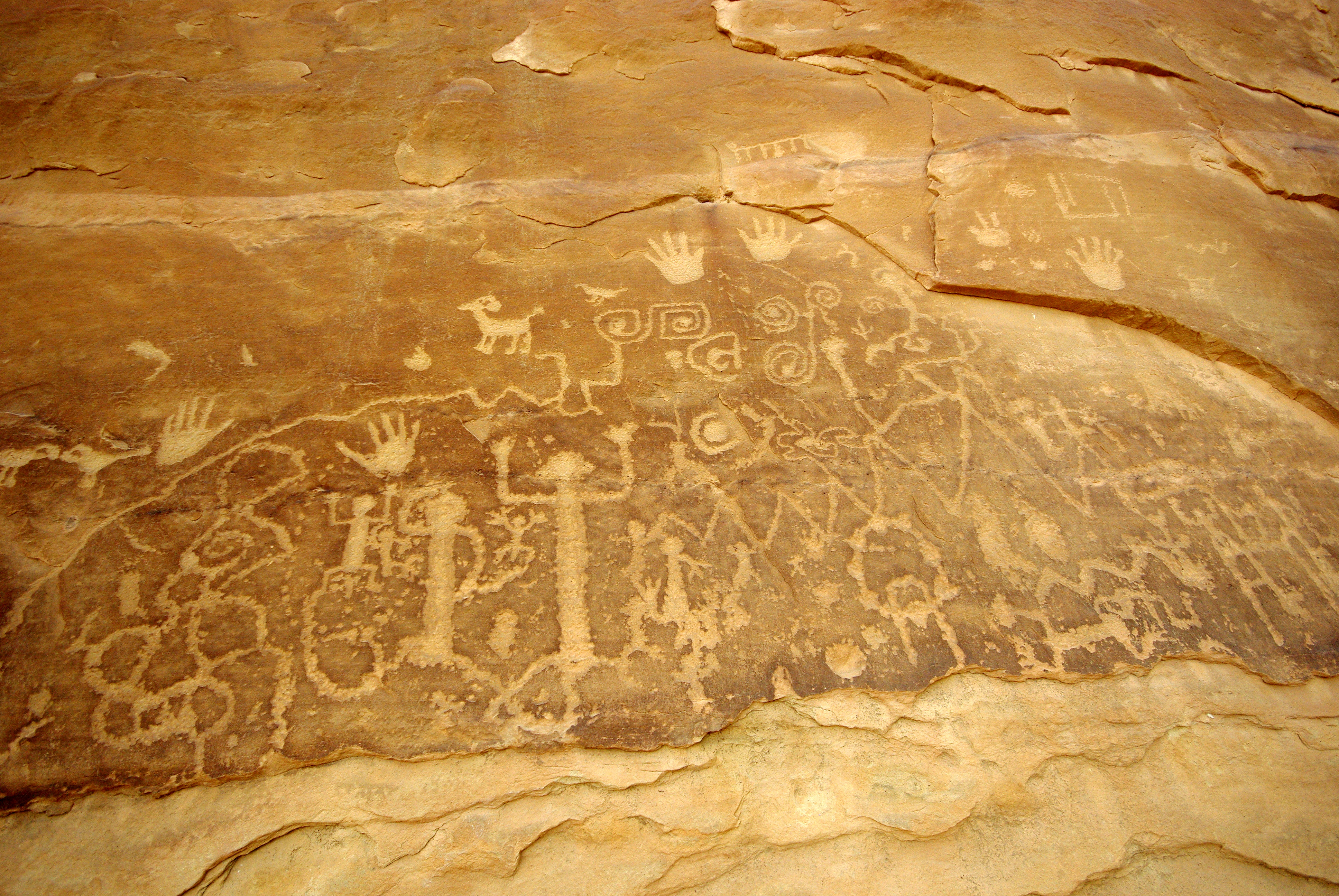 Petroglyph Point, MVNP. The walk to the Petroglyphs takes about an hour.